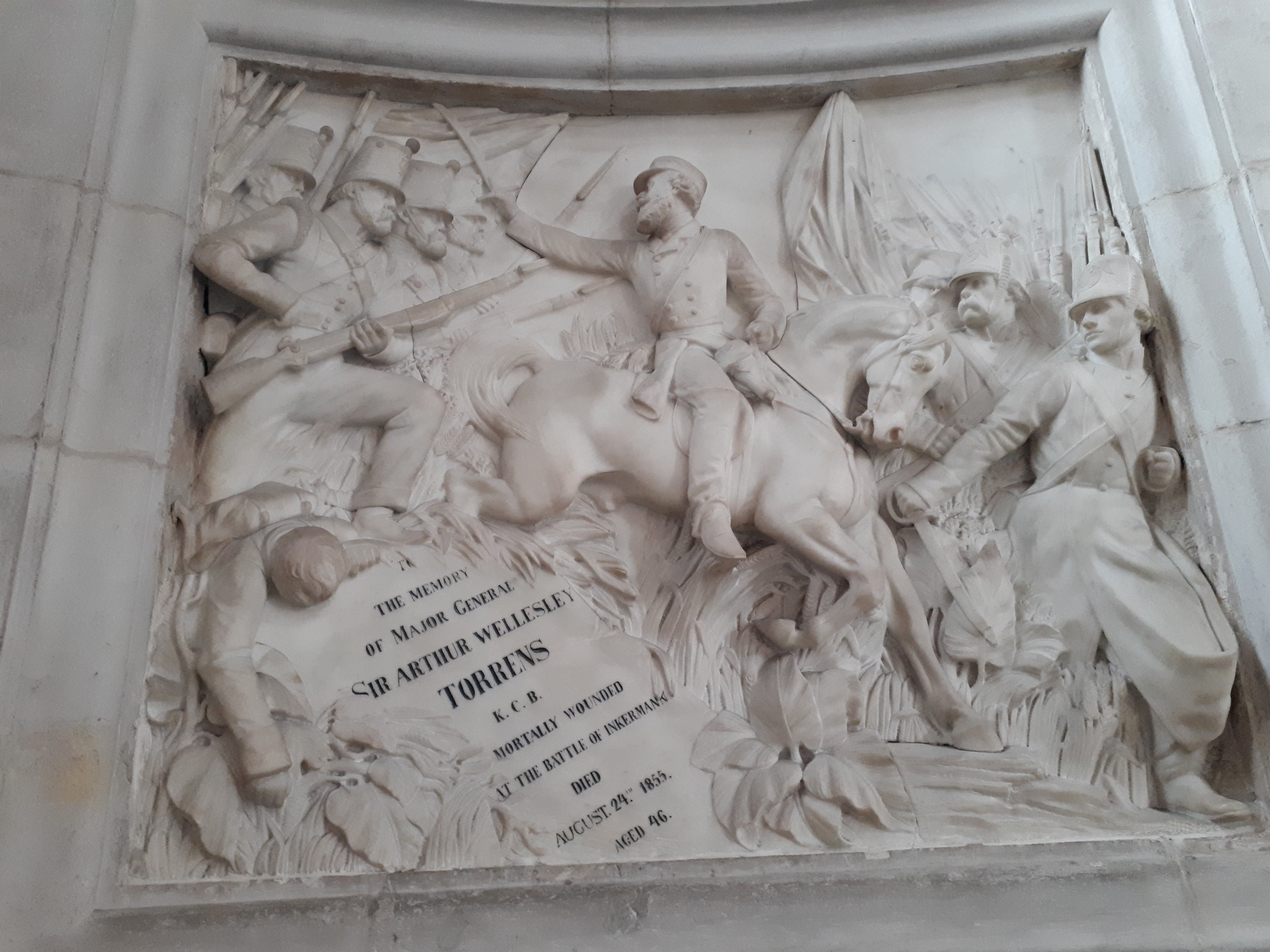 Memorial to Major General Arthur Wellesley Torrens, by Carlo Marochetti (1805-1867), at the St. Paul's Cathedral, London